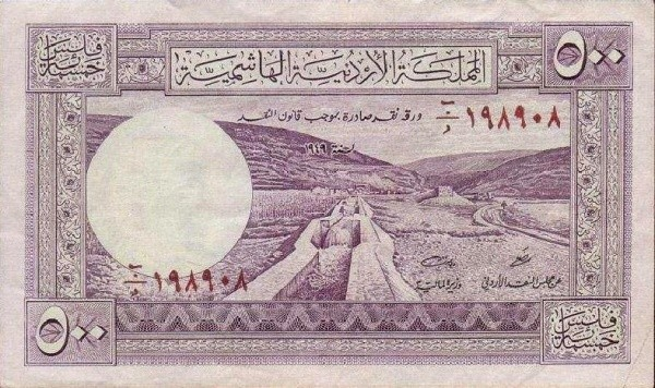 FIVE HUNDRED FILS JD 1952-obverse